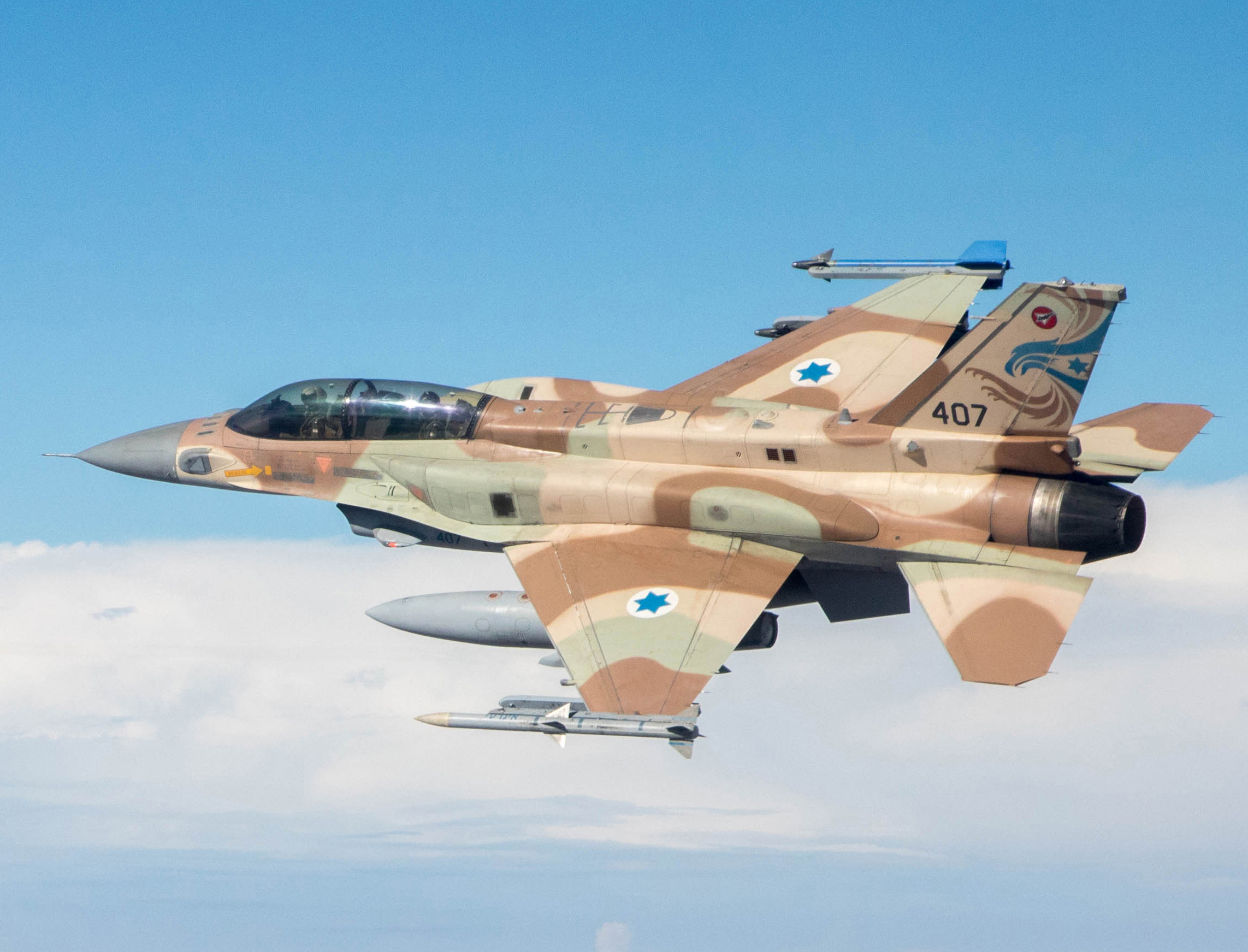 The "Adir" jets first flight in Israel. Pictured: "Adir" jet and F-16I "Sufa". Photo by: Maj. Ofer